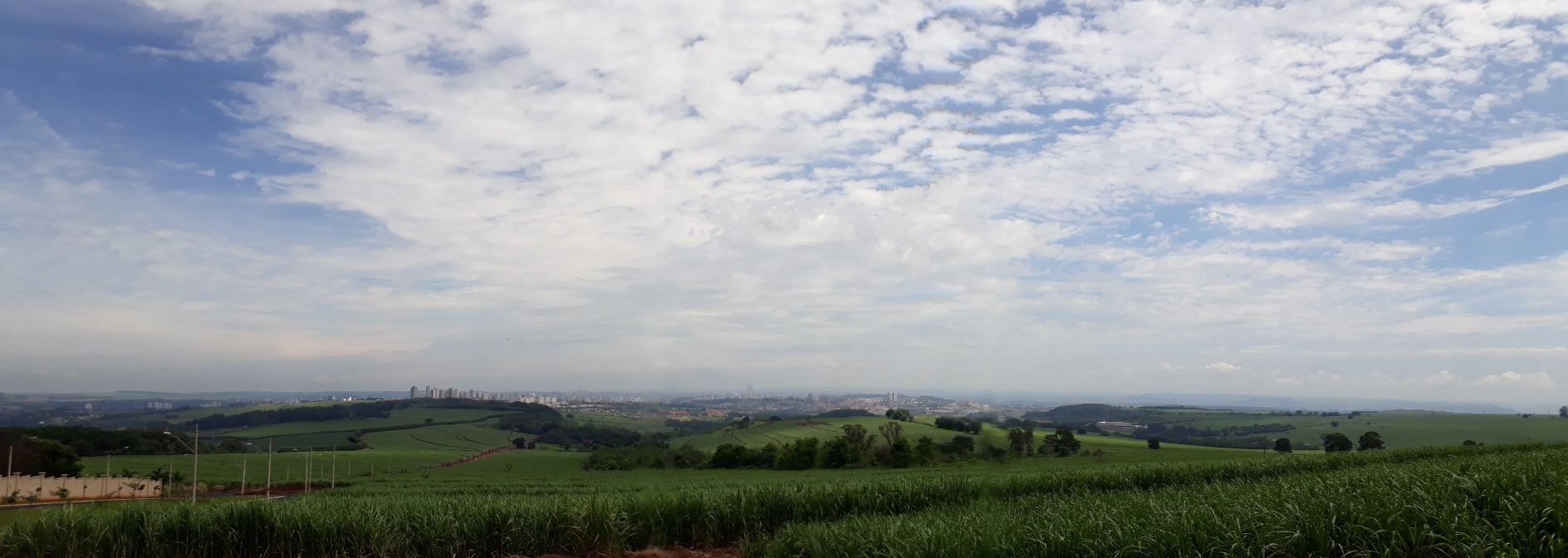 Panorama - View of Ribeirão Preto on the county border with Cravinhos.